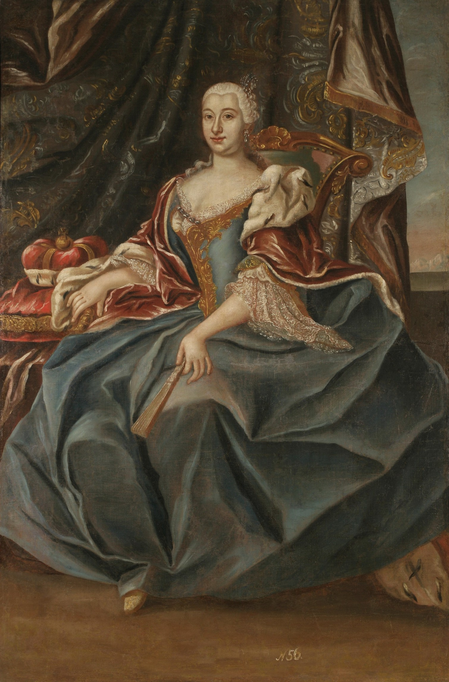 Portrait of Anna Ludwika Radziwiłł (1729-1771)